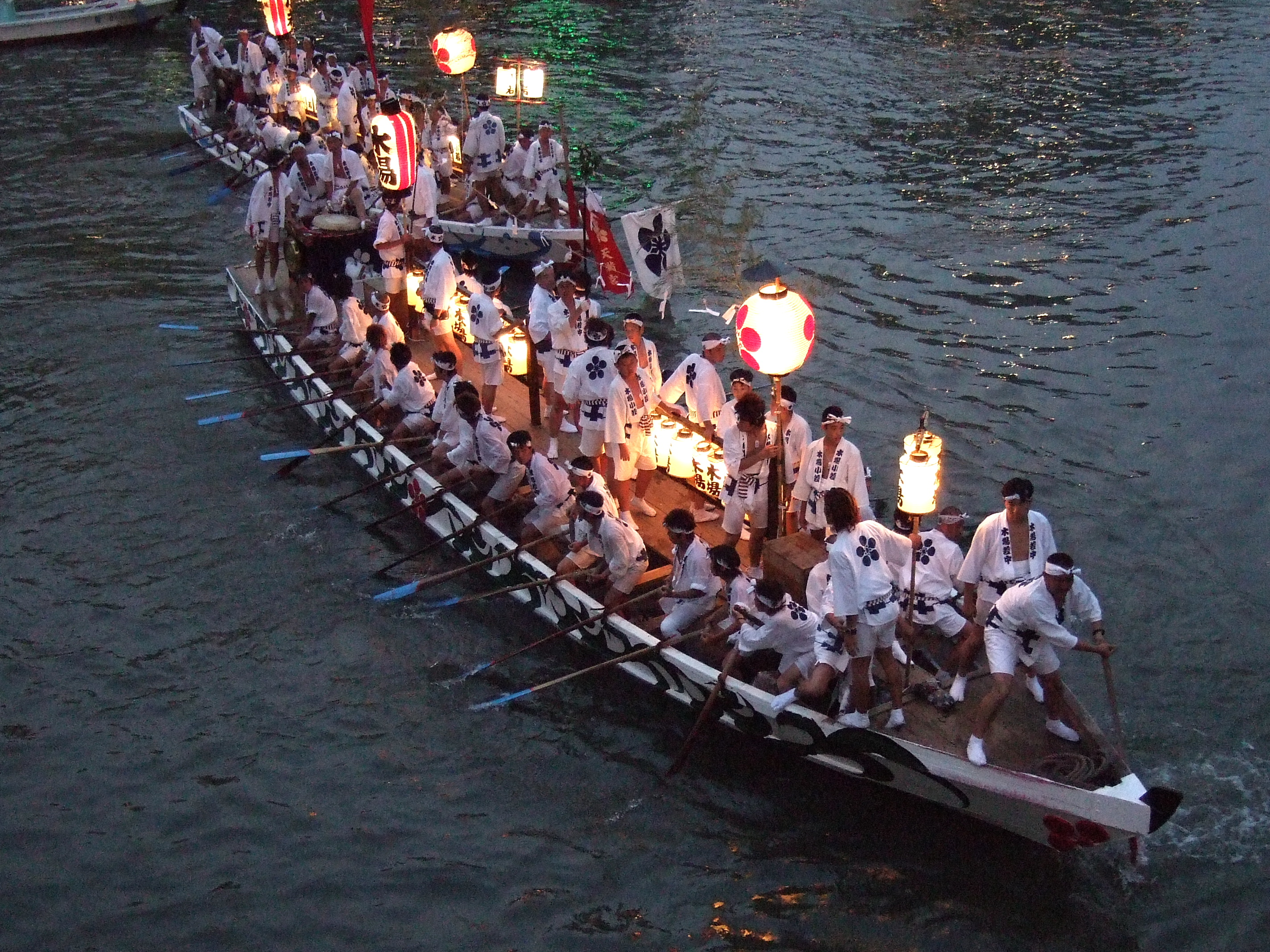 Boat procession, Tenjinmatsuri, Osaka, Japan, July 25, 2007